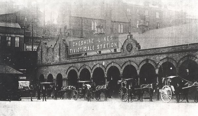 Main exterior of Stockport Tiviot Dale railway station. Taxi carriages wait outside.